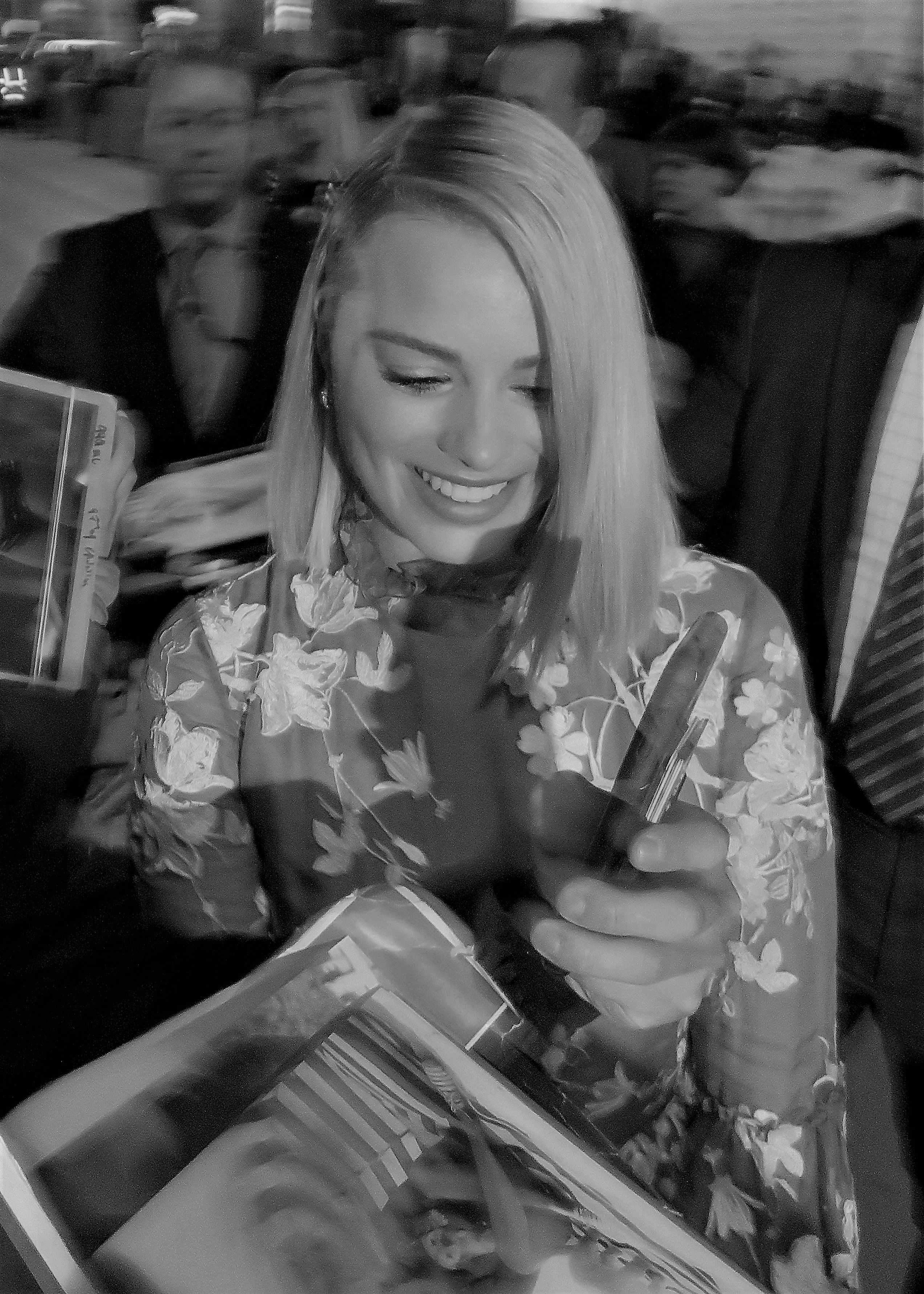 Black and White shot Margot Robbie at the premiere of I Tonya, 2017 Toronto Film Festival